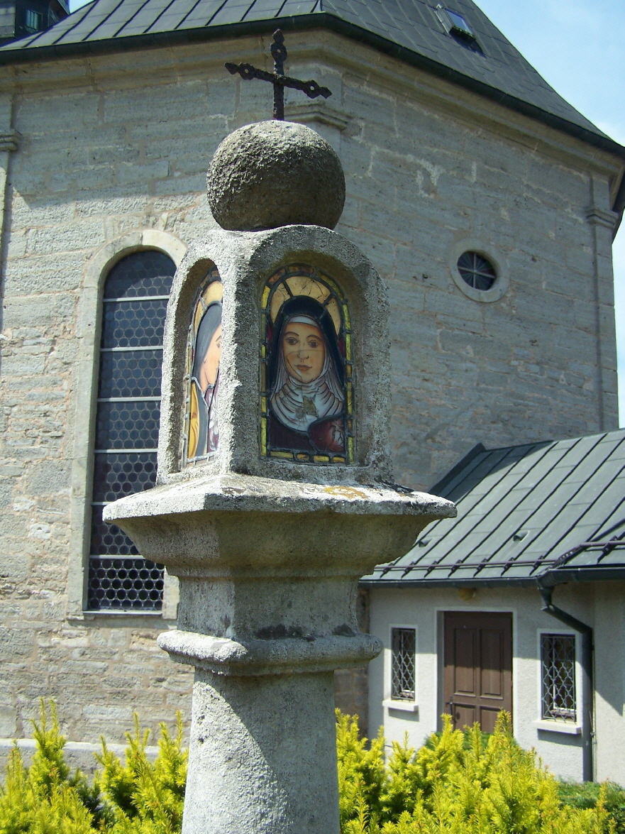 A columne with a picture of Maria at the gate of the cemetery in Struth.